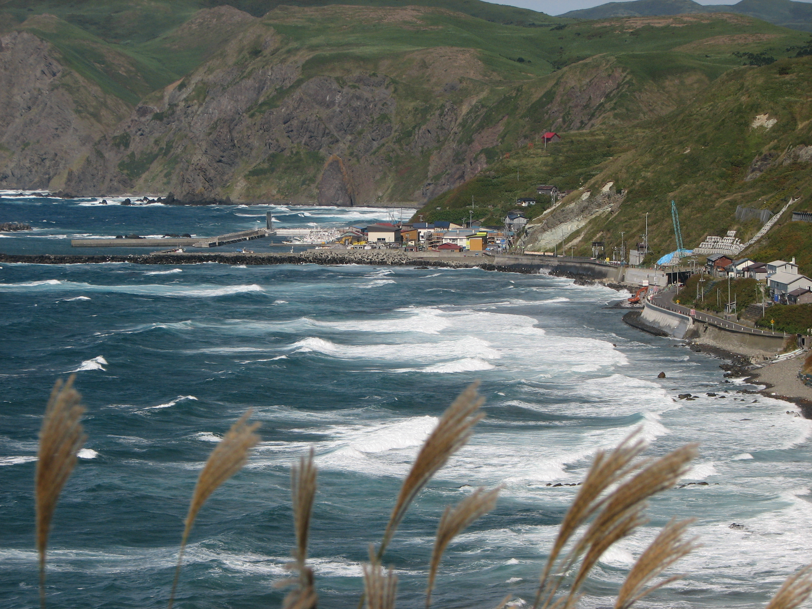 Rebun-Island